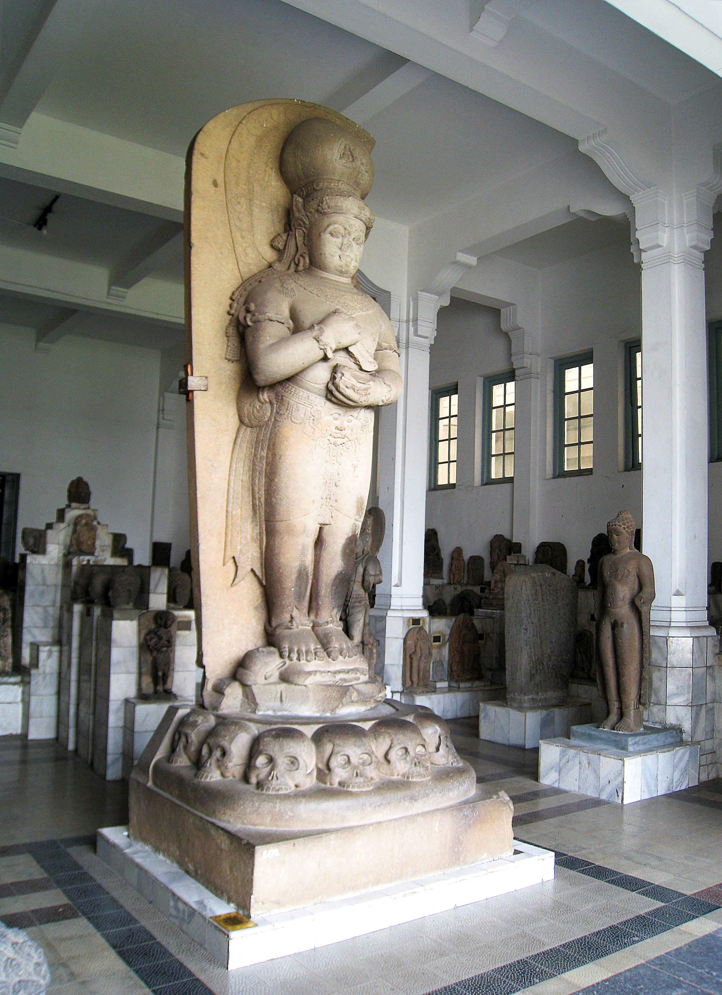 The large Buddhist statue of Bhairava, the depiction of King Adityavarman of Malayu (1347-1375). Discovered in Rambahan, Padangroco, West Sumatra. The collection of National Museum of Indonesia, Jakarta.